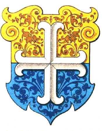 County of Gradisca Coat of Arms